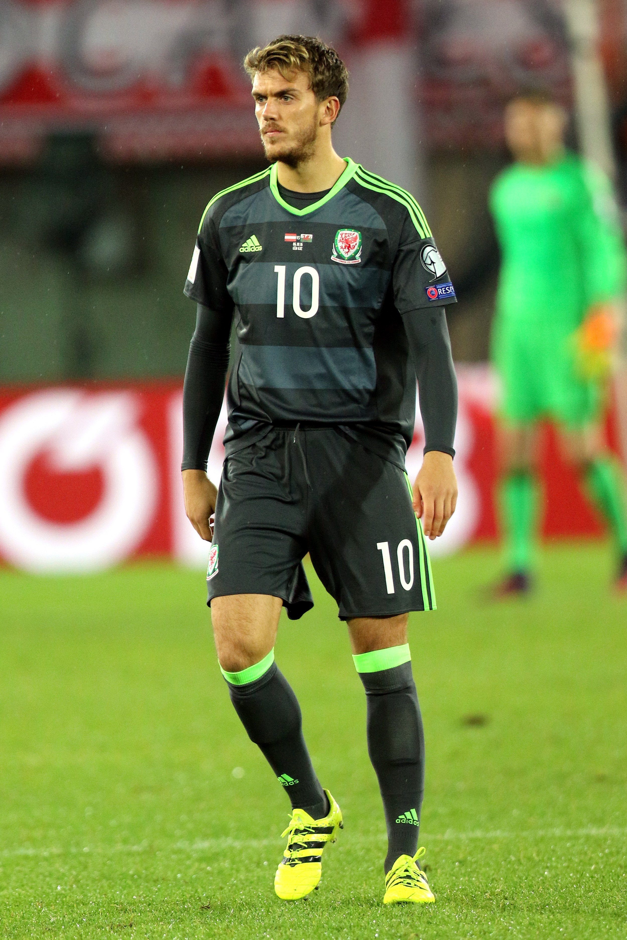 2018 FIFA World Cup qualification – UEFA Group D) – Austria (red shirts) vs. Wales (white shirts) 2-2 (1-2) – 2016-10-06 in Vienna, Ernst-Happel-Stadion – The photo shows Emyr Huws.